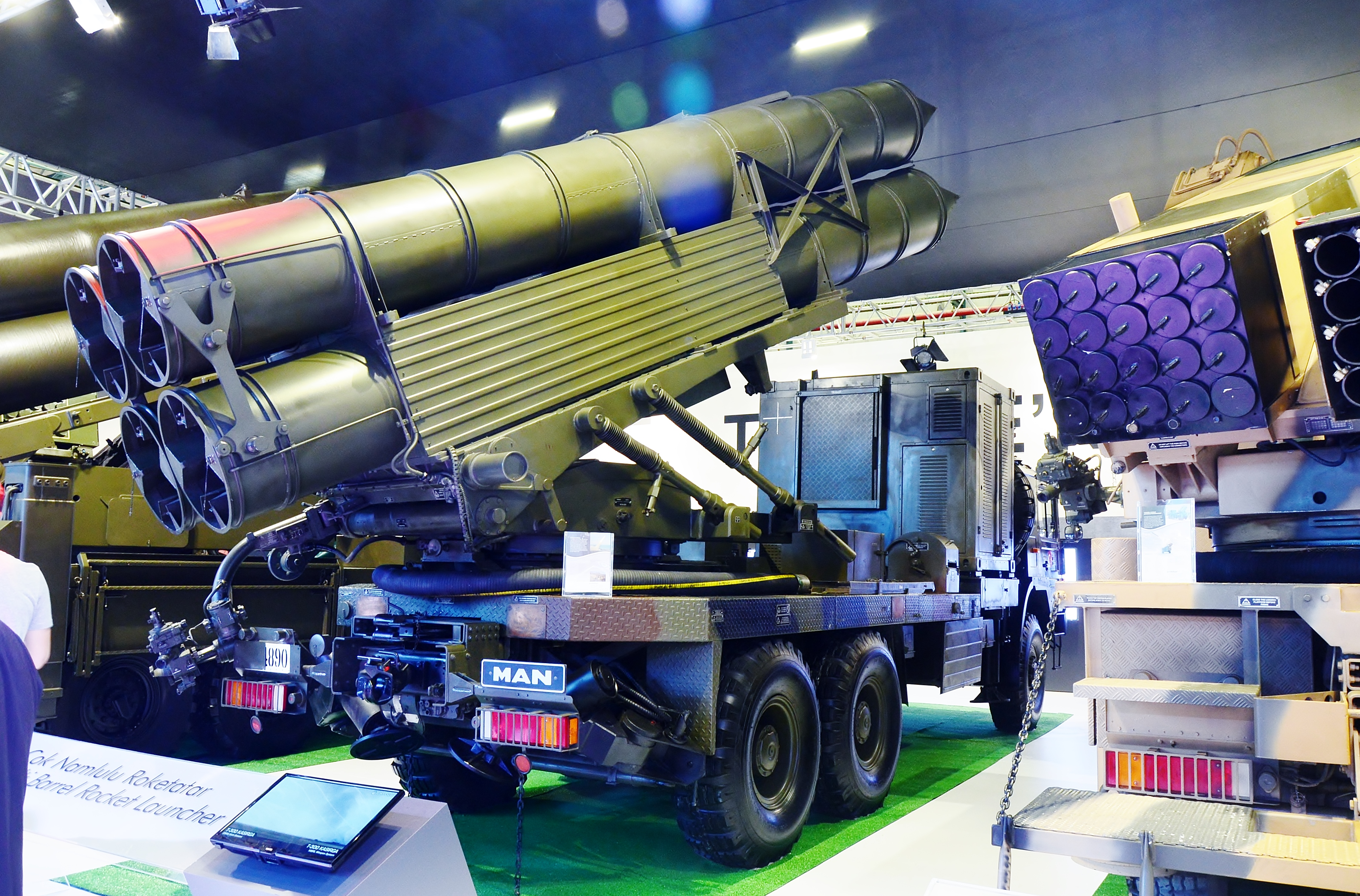 Artillery rockets of Roketsan at IDEF 2015